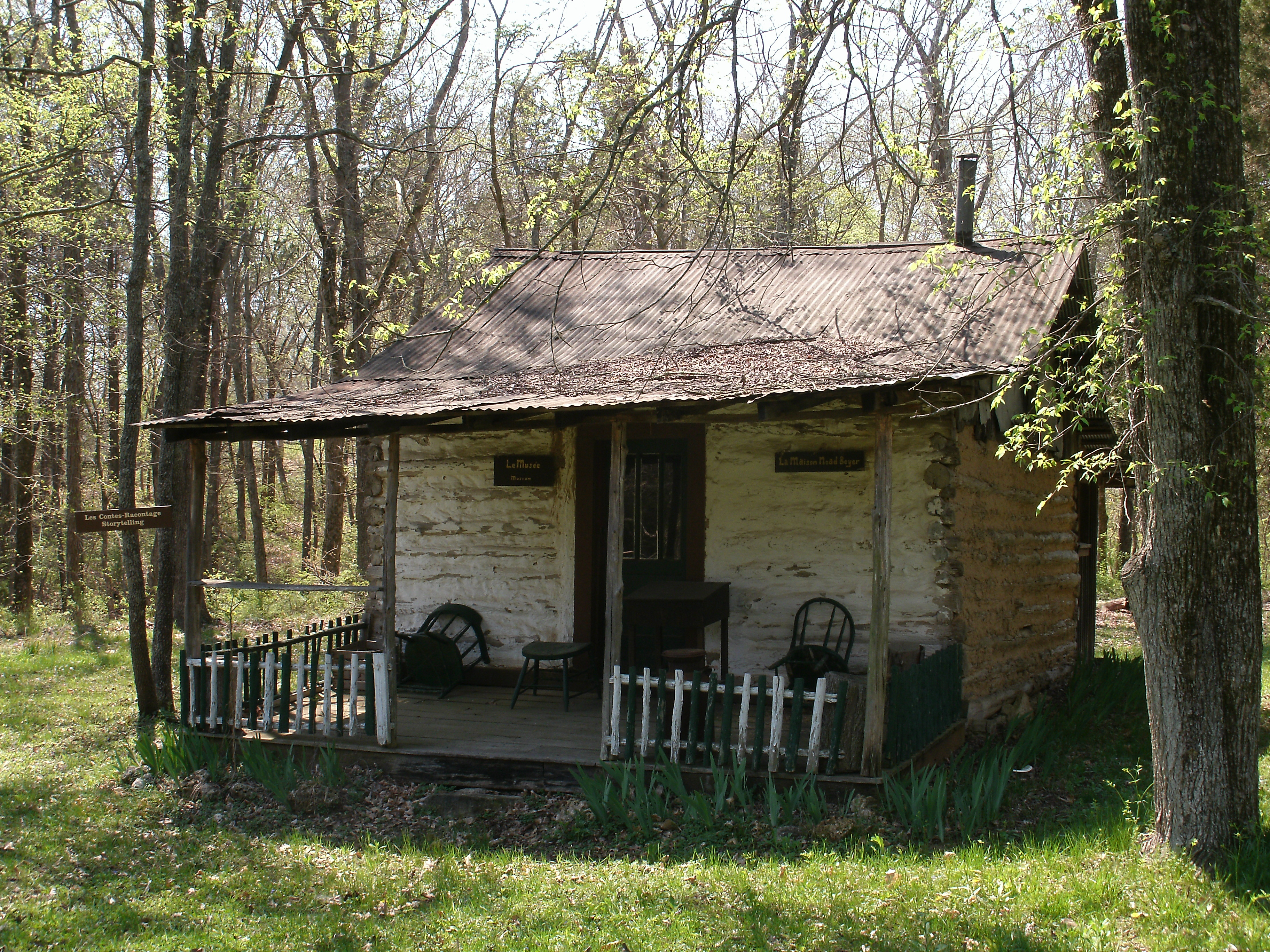 The Noad Boyer log cabin on the grounds of the Old Mines Historical Society in Washington County in Missouri.